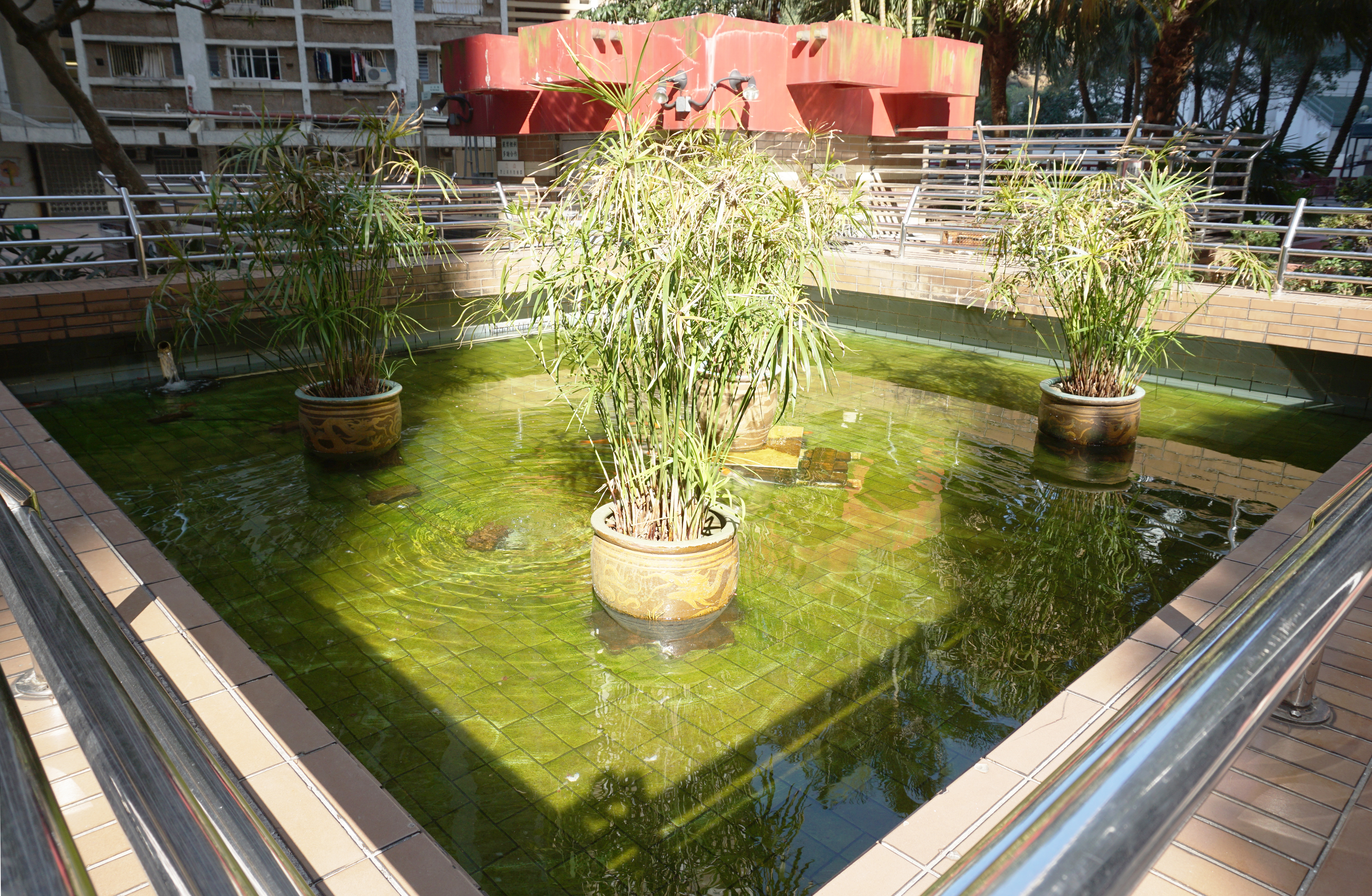 Lok Wah South Estate in Ngau Tau Kok, Hong Kong.